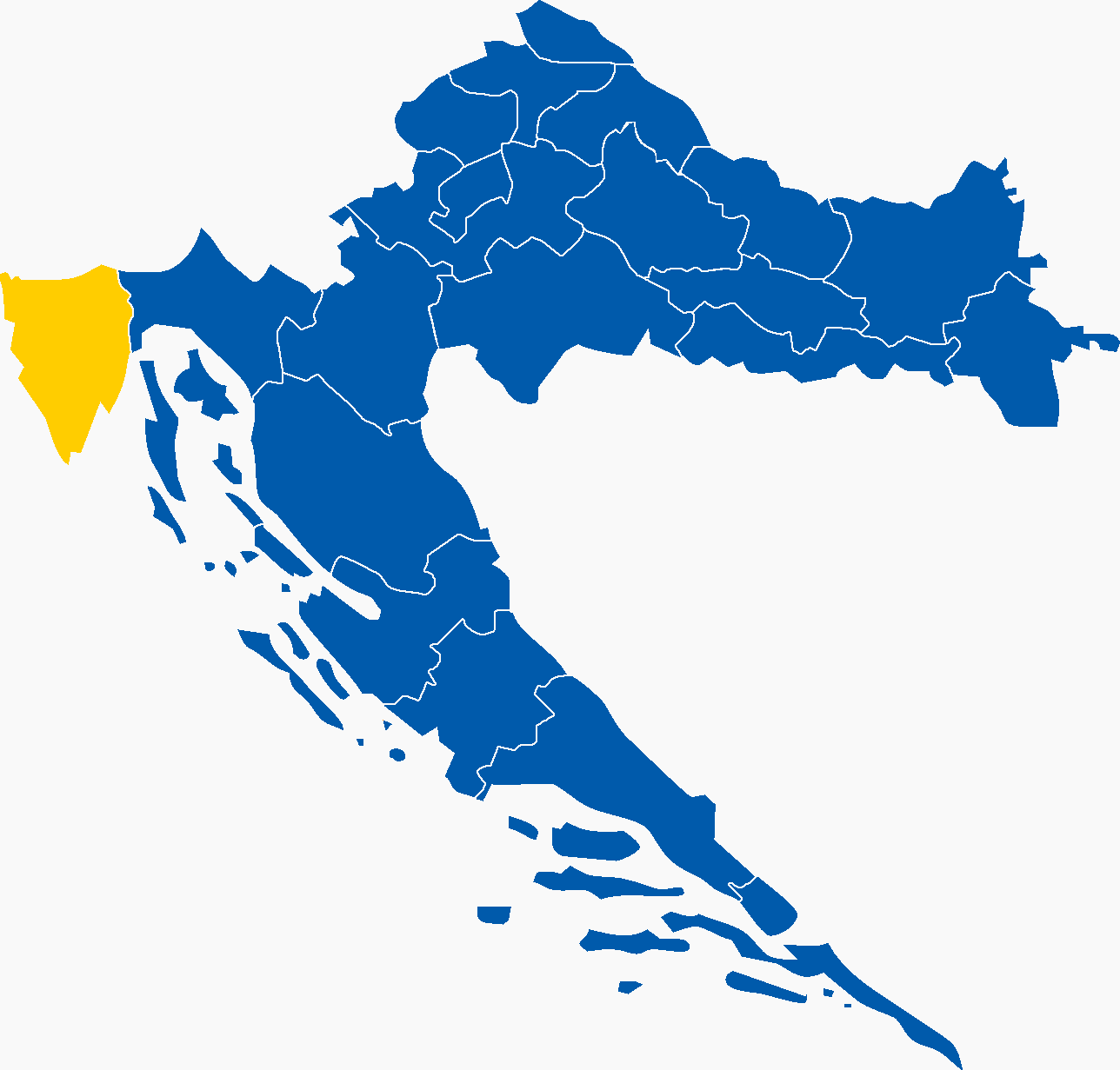 Results of the 1997 presidential election in each county of Croatia.